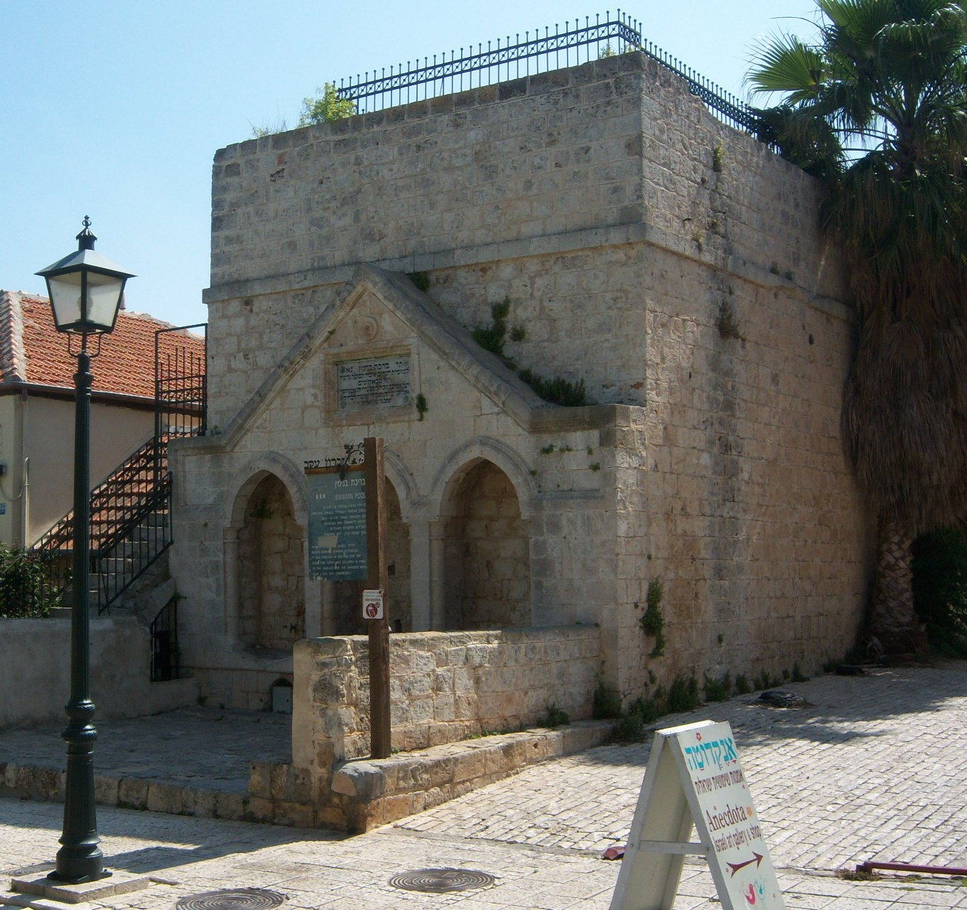 Fontaline a Zikhron Ya'aqov